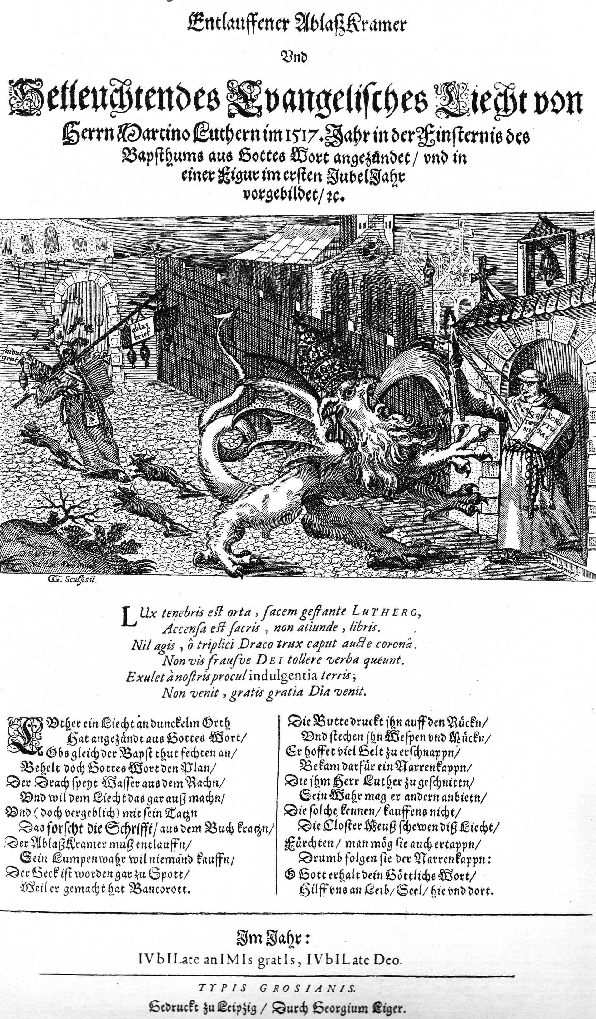 Pamphlet to the first memory of the publication of the theses of Martin Luther in 1517